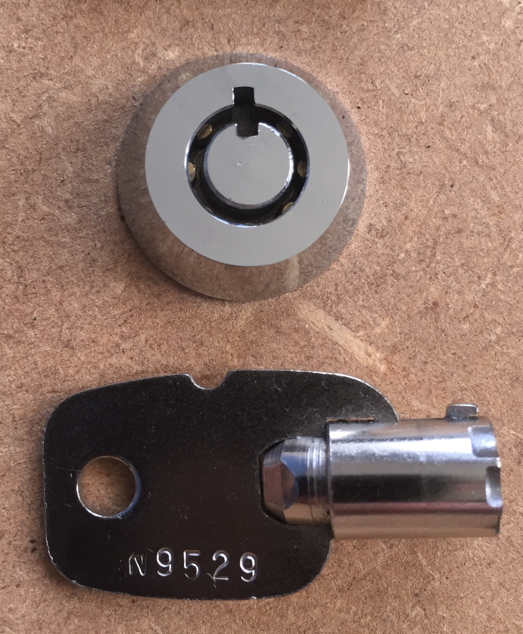 A tubular (sometimes known as Ace) pin tumbler lock and key. Photo taken by me.